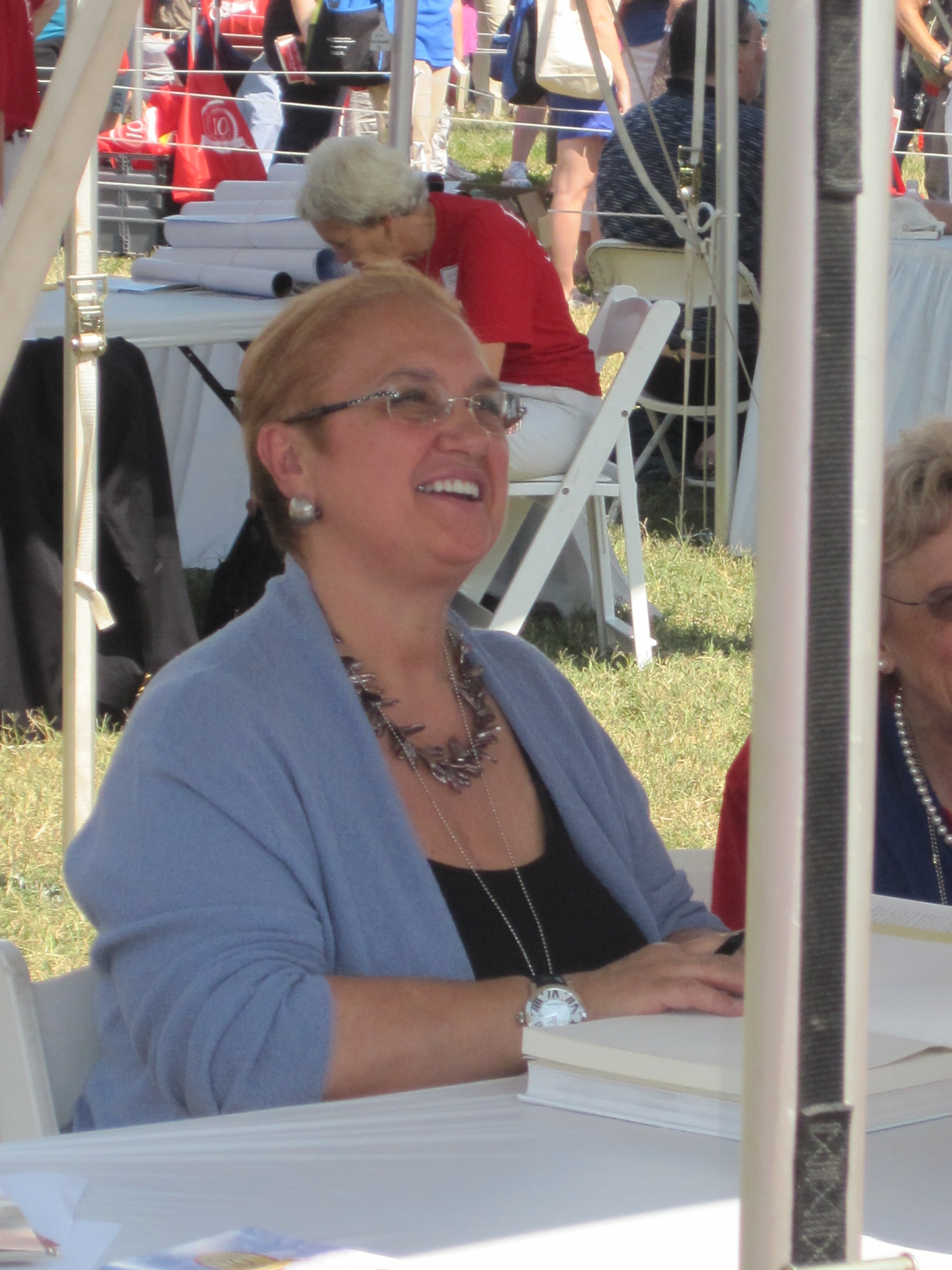 Restaurateur Lidia Bastianich at Washington, D.C.'s Library of Congress Book Festival in September 2010